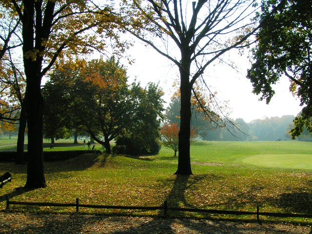 The view of the course at the Dyker Beach Golf Course in the fall of 2006. Created by user:Cjz208.